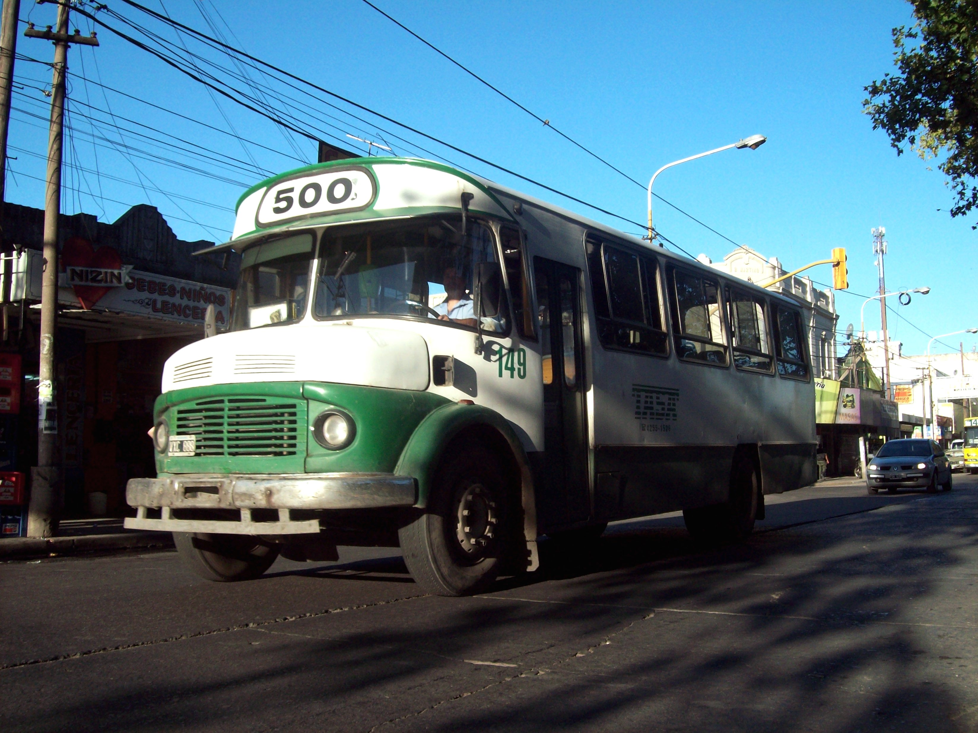 Bus (#149) with Mercedes-Benz chassis in Buenos Aires or Buenos Aires Province, Argentina. Colectivo, line 500, Treinta de Agosto S.A. operator.